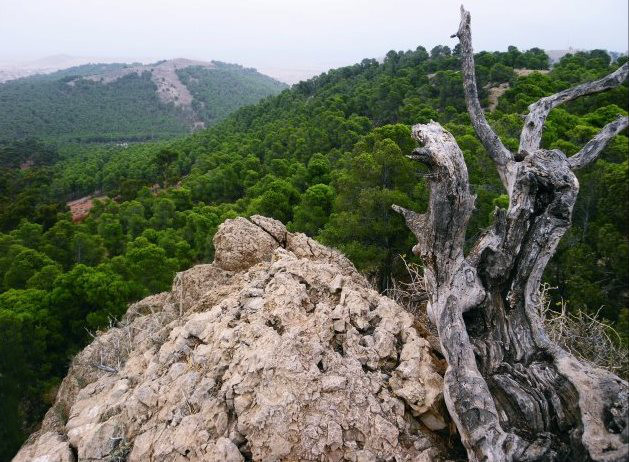 Sidi Mâafa Park From the top. Oujda, Morocco